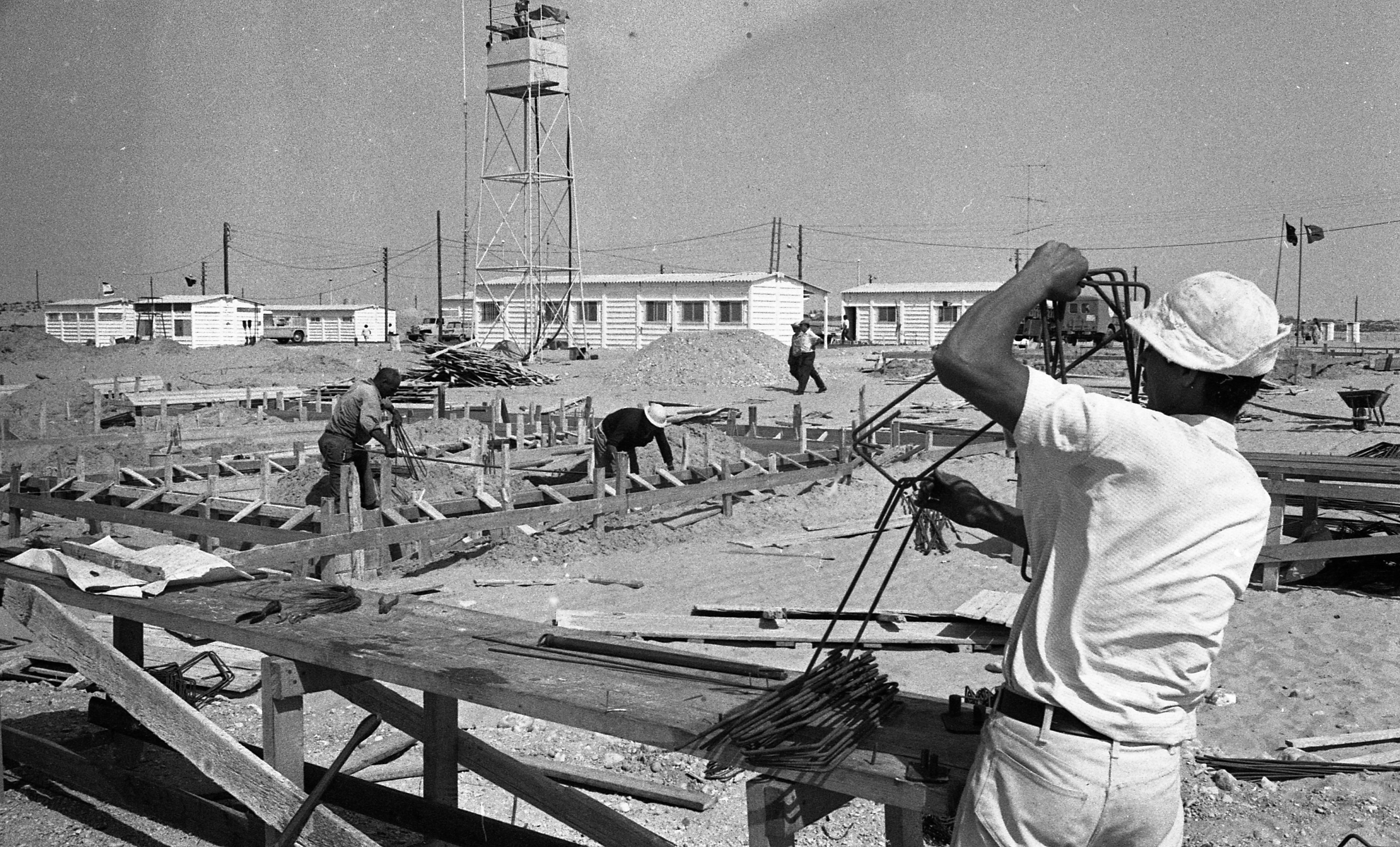 The new Nahal military settlement, Nahal Dikla, was officially founded in north Sinai near the town El-Arish.